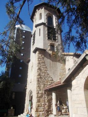 The Tower of the Friedenskirche ("Church of Peace") dates from 1912, built to house a German congregation formed in 1888